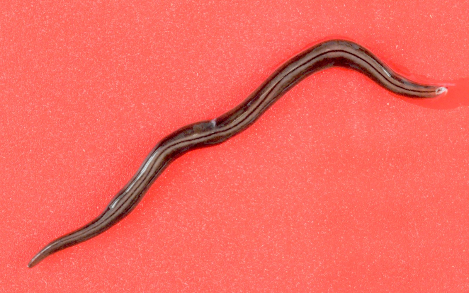 Invasive land planarian, probably Kontikia ventrolineata (Geoplanidae), from Ploudalmezeau, Finistère, France. Specimen in Muséum National d'Histoire Naturelle, Paris, France, MNHN JL56